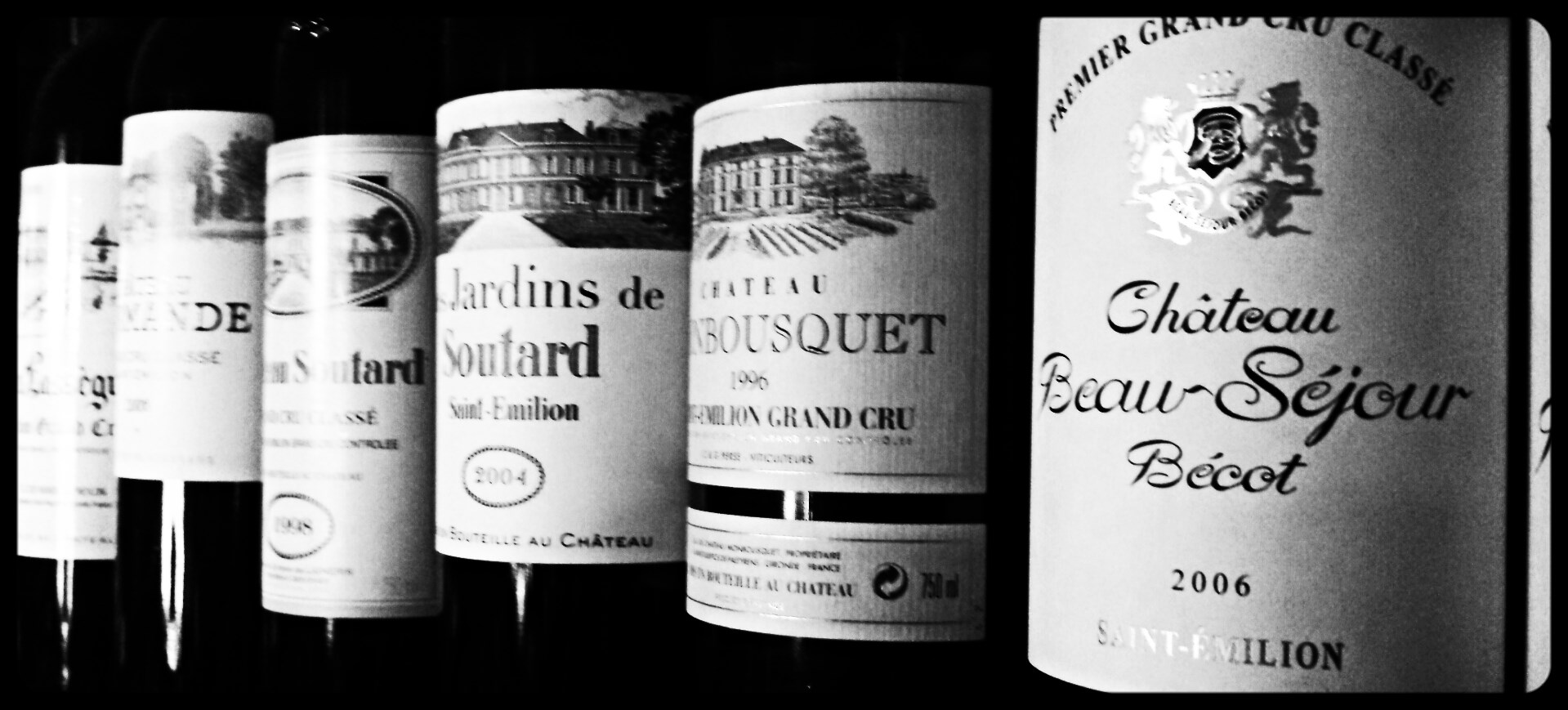 Second wine from grand cru classé vinaries like Ch. Beau-Séjour Bécot, Ch. Soutard